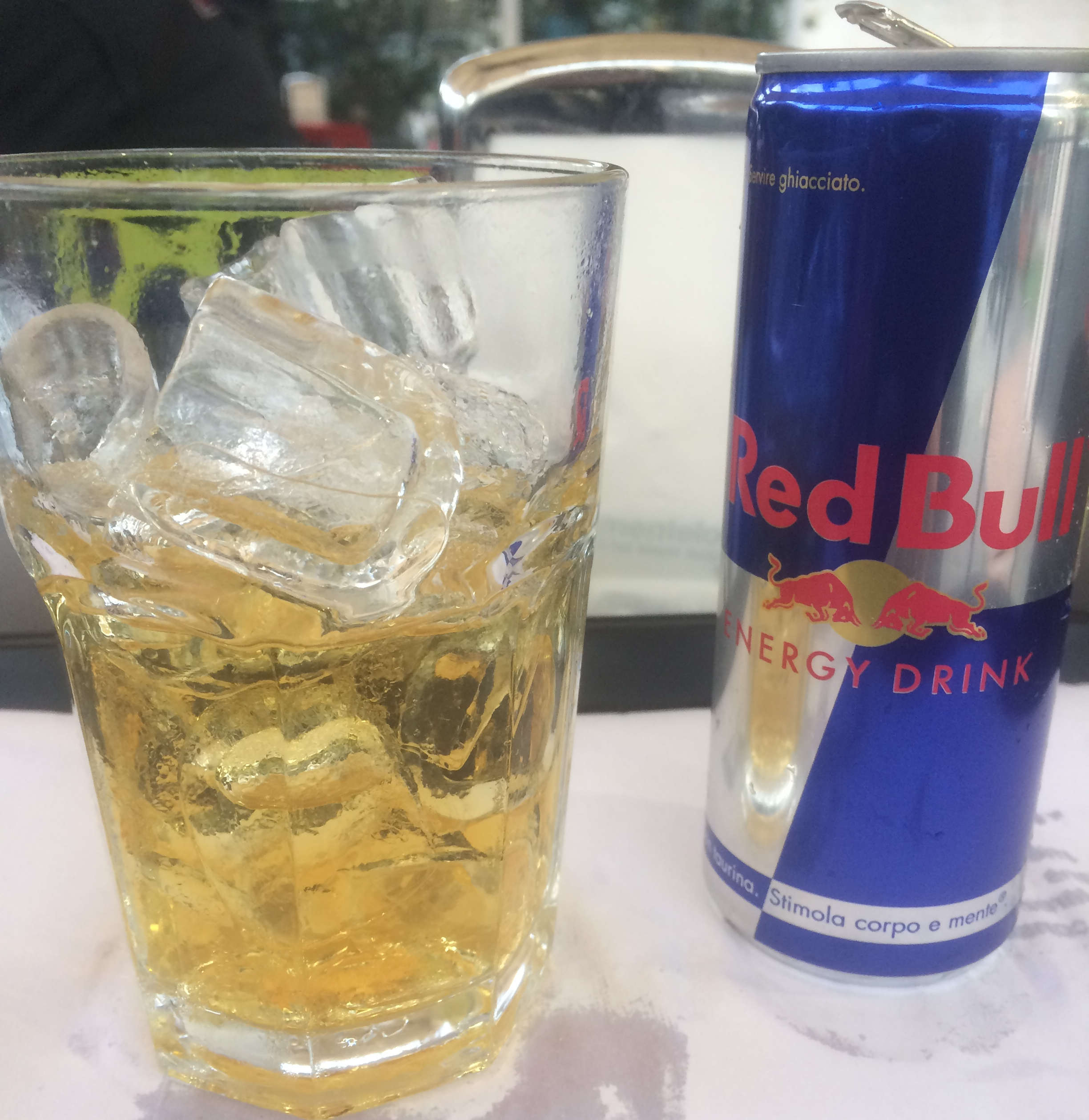 Left a glass of Red Bull with ice, right the can it came from